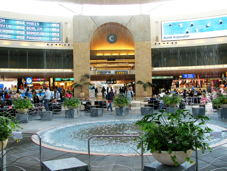 Duty free rotunda, Ben Gurion International Airport.